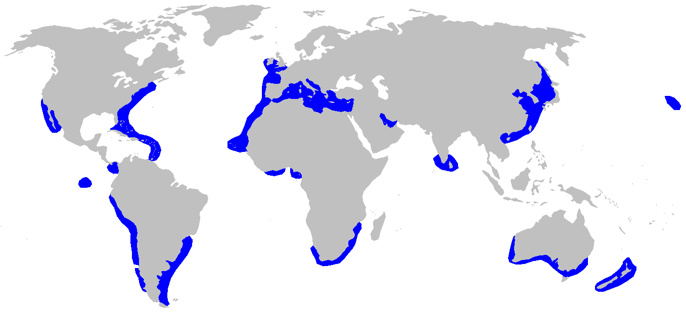 Distribution map for Sphyrna zygaena